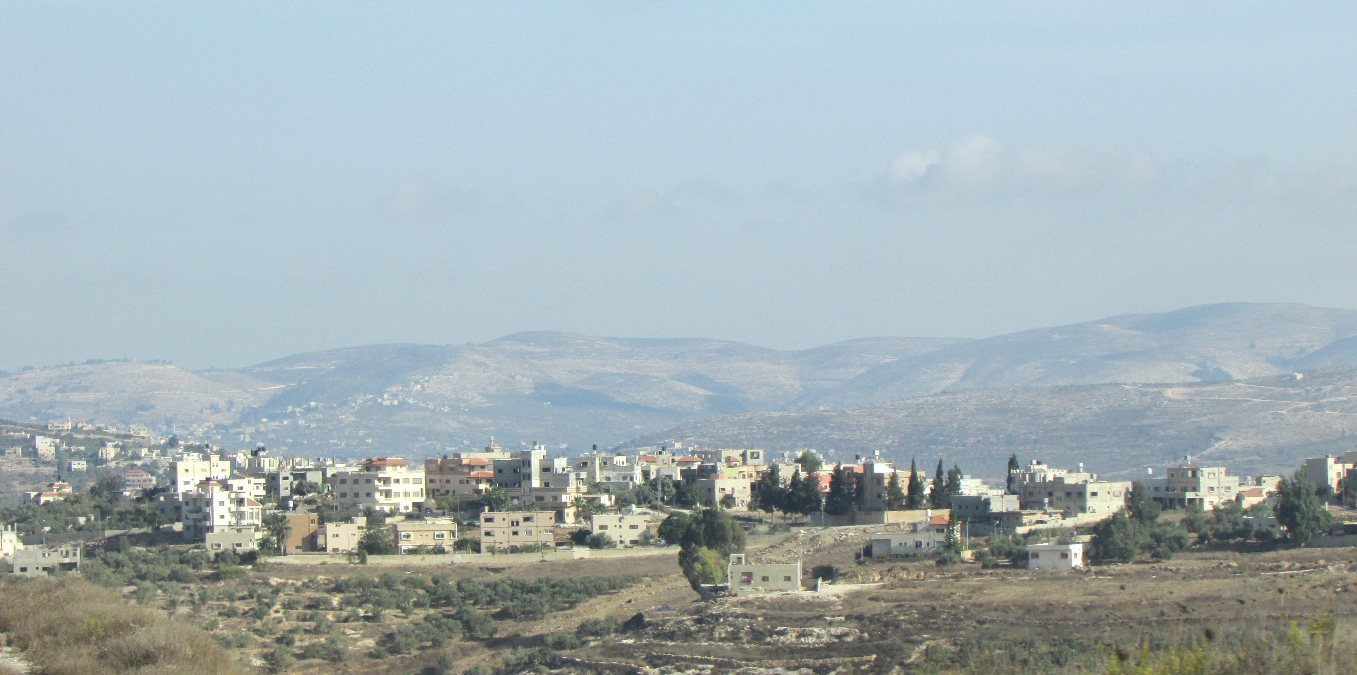 The closer houses are Sarra. Behind on the left is Burqa. Above, looking over Burqa is the place of Homesh which was demolished in 2005.